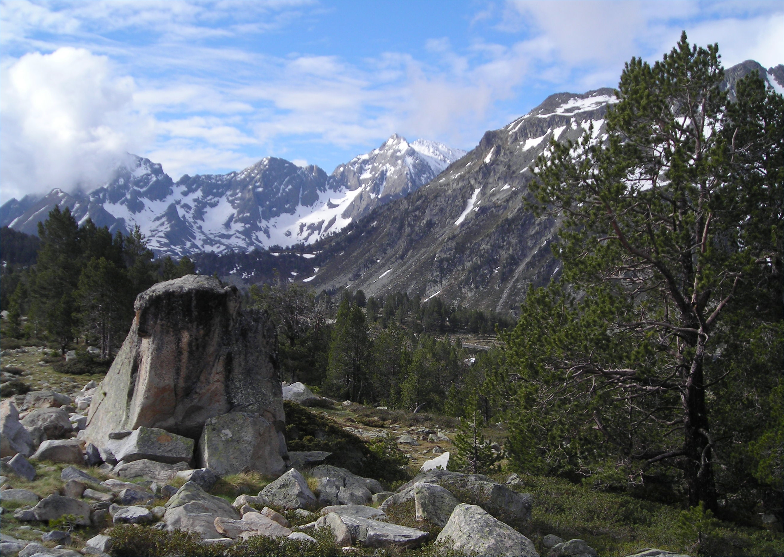 Pic Méchant (right) and Pic de Bugatet (left) from above lac d'Aubert